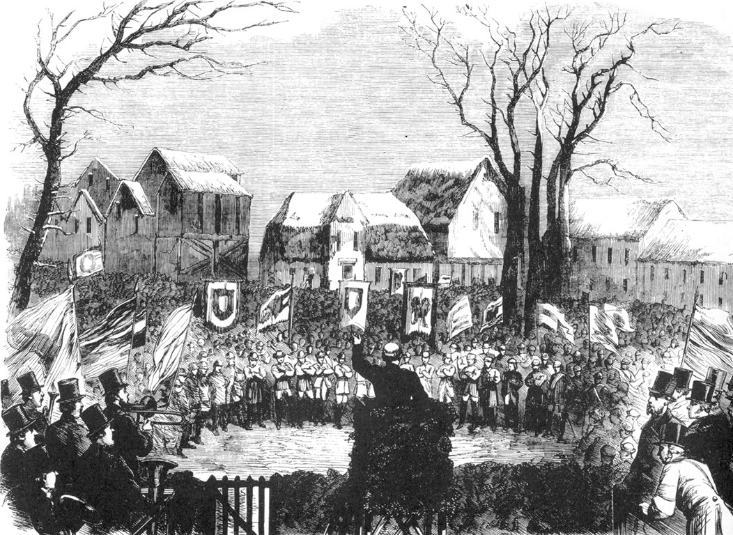 Elmshorn (Germany),Assembling at Probstenfeld 1864